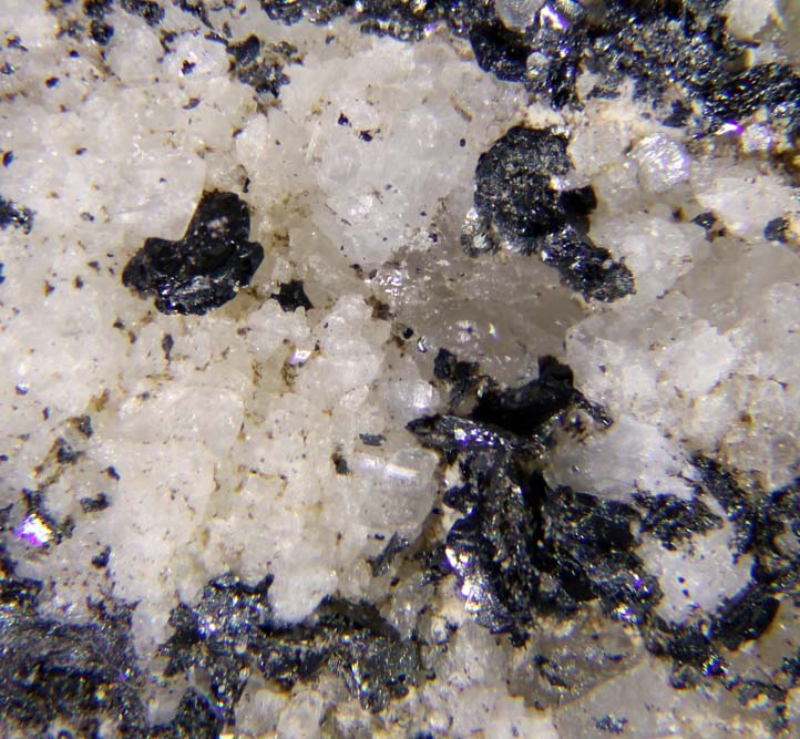 Sharp grammacioliite-(Y) crystals from the type and most famous locality for the mineral: Sambuco Gramaccioliite Site, Valle Stura, Cunoe, Piedmont, Italy